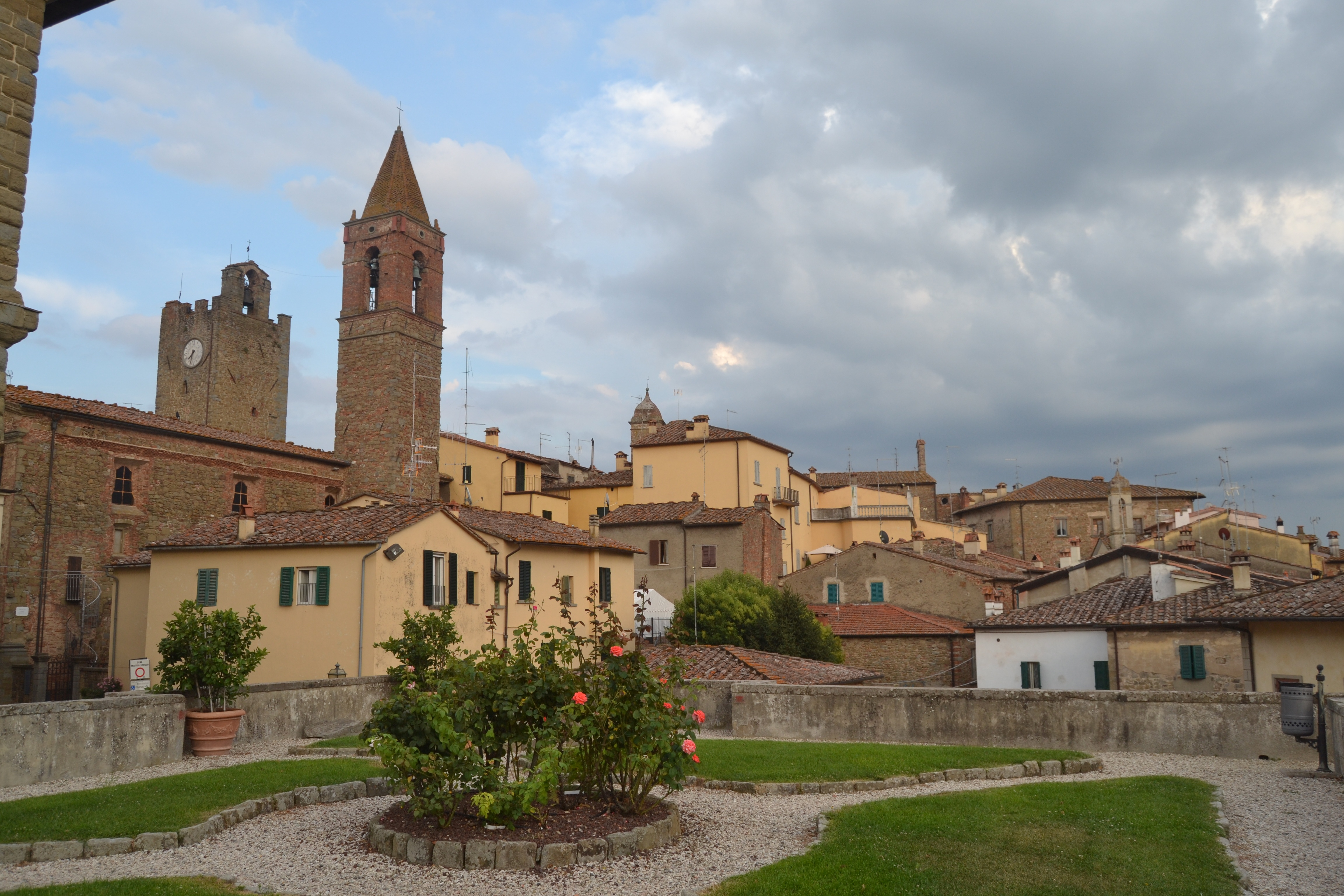 Monte San Savino, Tuscany, Italy